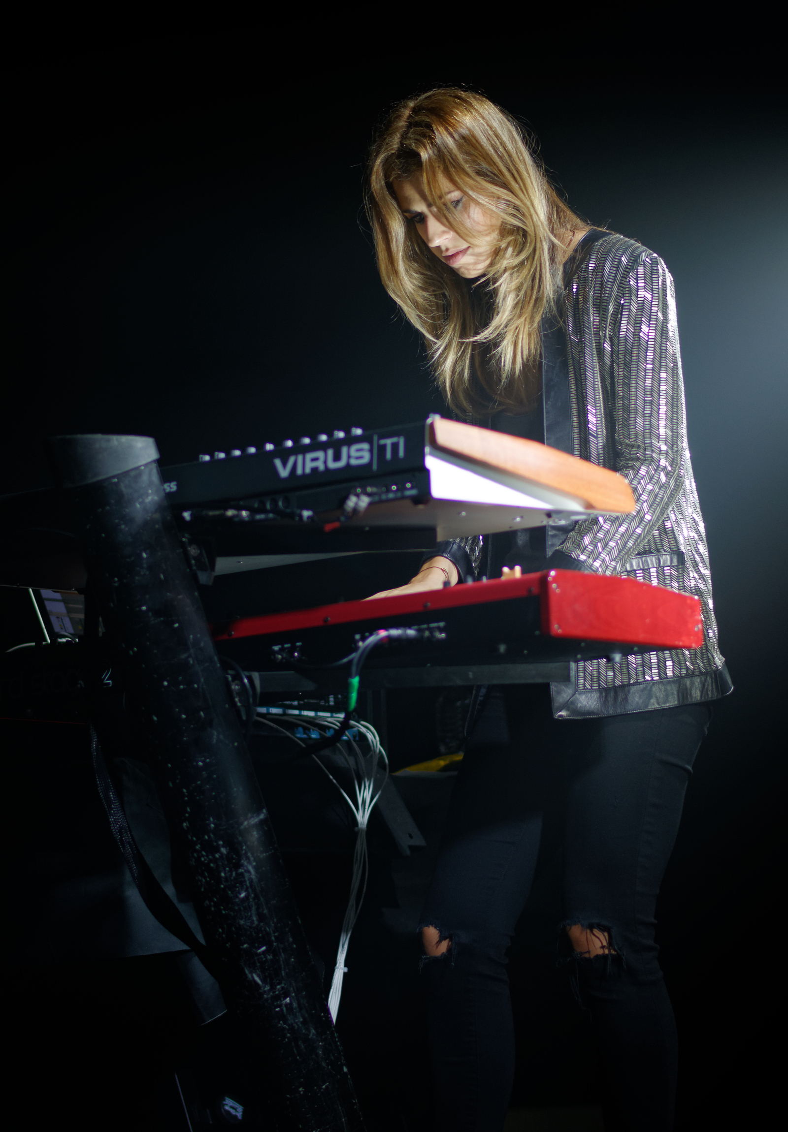 Brooke Fraser performing live at the Fonda Theatre in Los Angeles, California on Thursday January 29th, 2015. Part of Brooke's "Brutal Romantic" Tour.